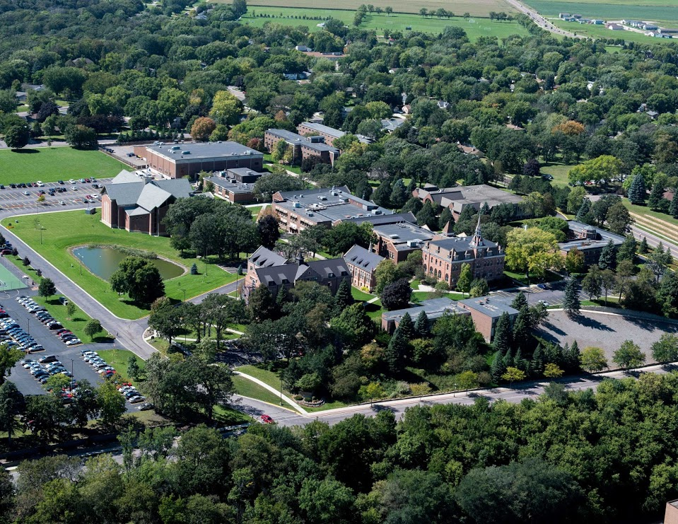 This is an aerial photo of the Martin Luther College campus in New Ulm, MN, taken in the 2010s.